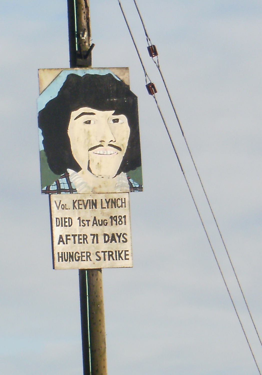 A placard featuring the image of Irish Hunger Striker Kevin Lynch.